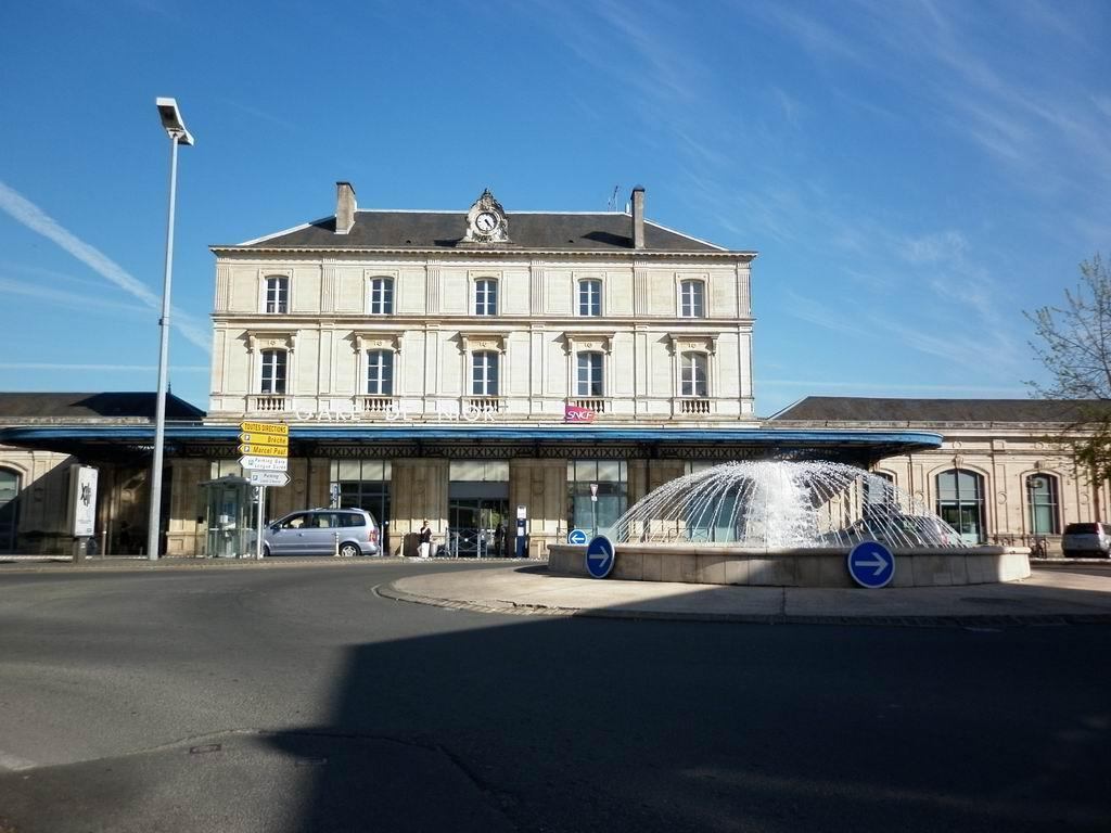 niort train station